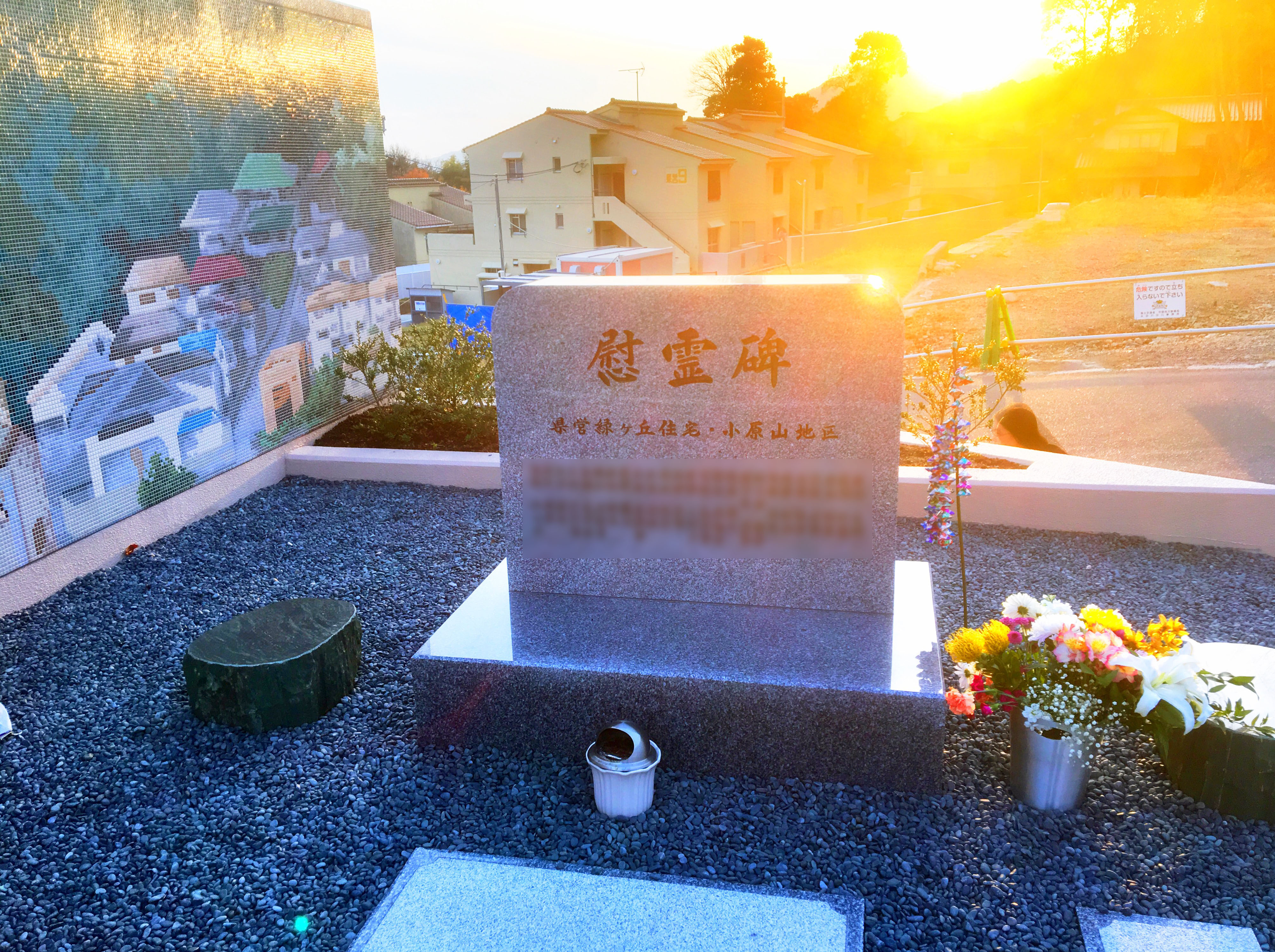 Hiroshima-Cloudburst-August2014-monument